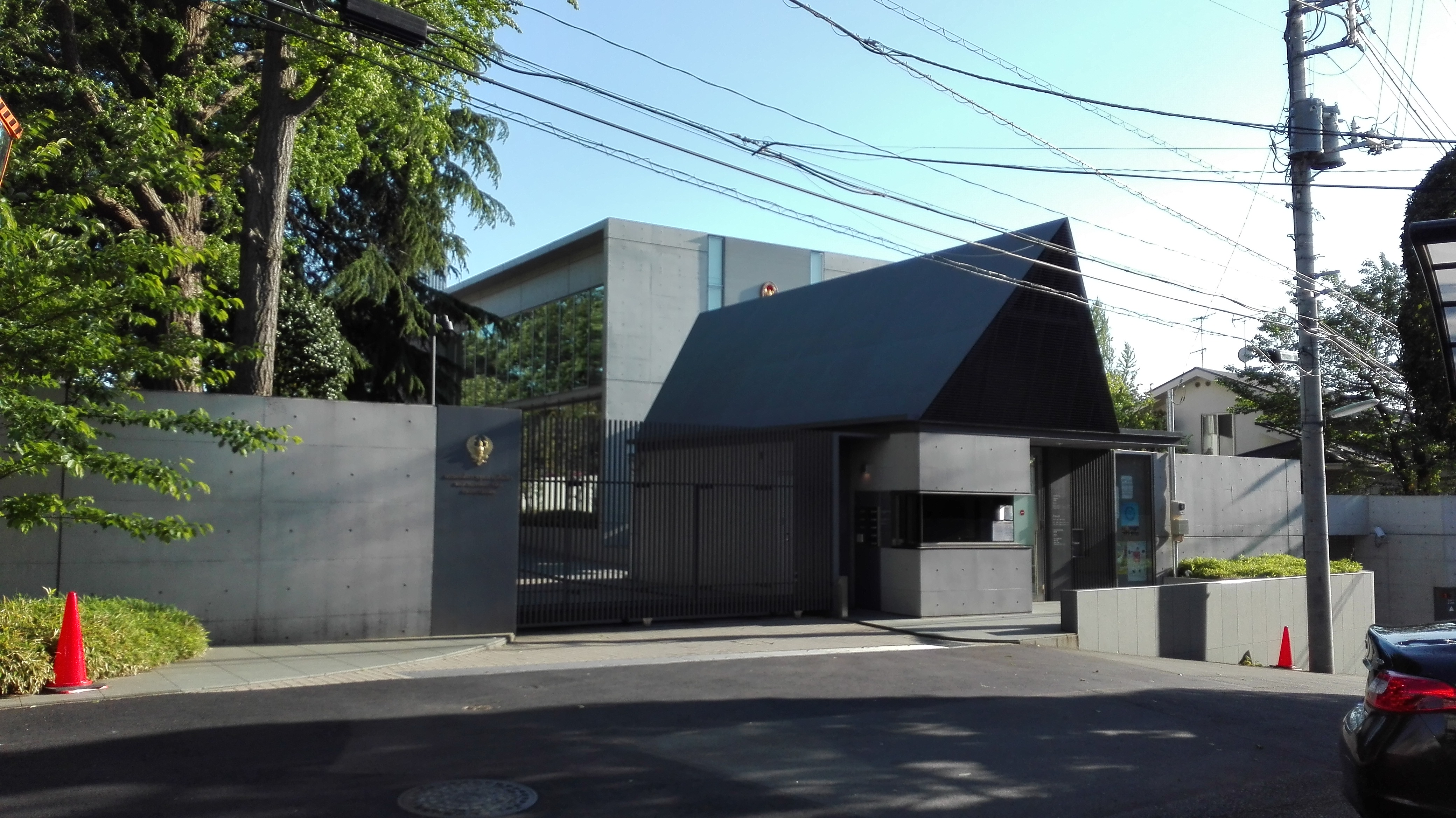 Embassy of Kingdom of Thailand in Tokyo, Japan April 29, 2016